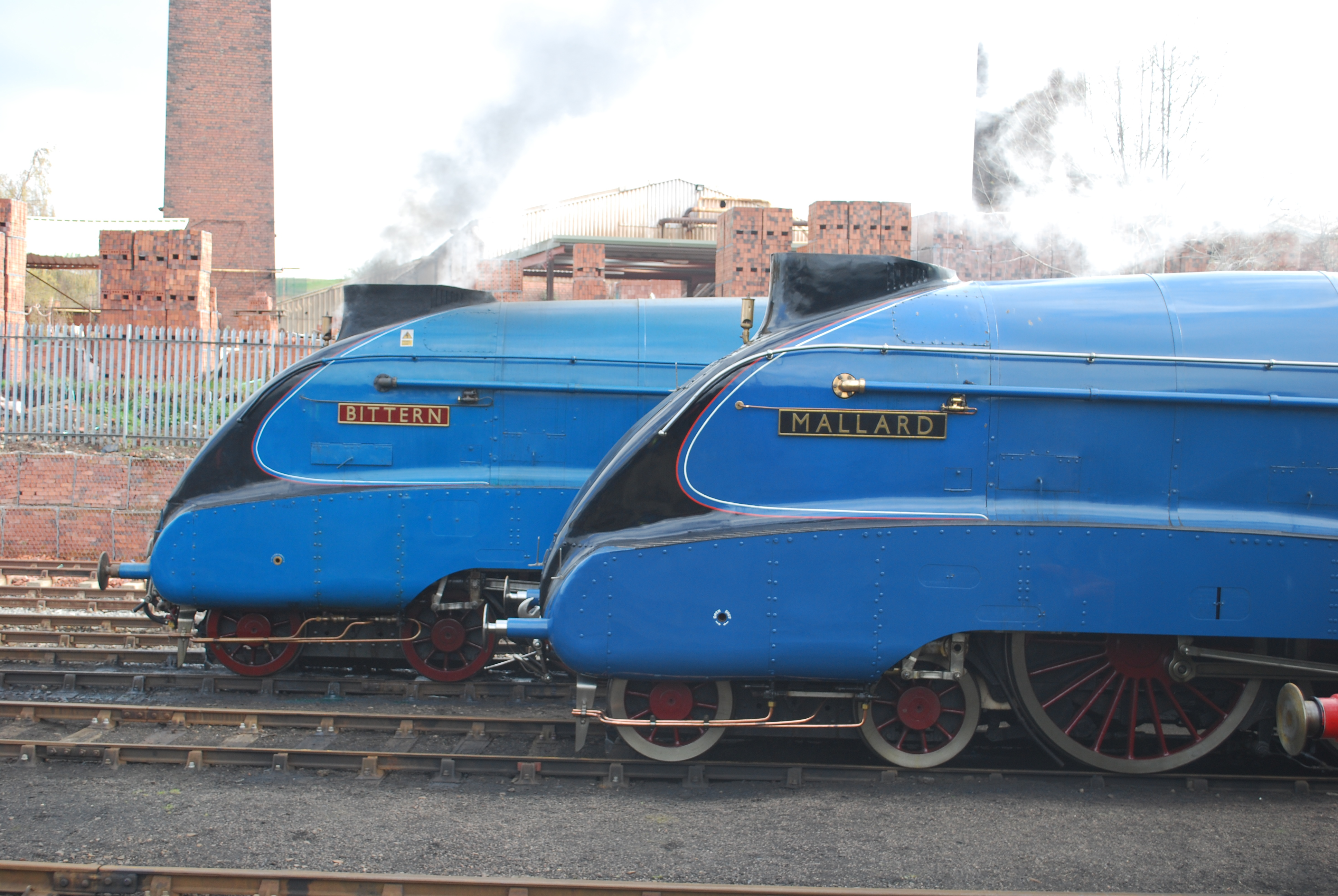 How often do you get TWO Garter Blue A4's next to each other! Here are No.4468 "Mallard" and No.4464 "Bittern" at Barrow Hill, 04/12. Note the slight differences in livery: "Mallard" has a black background to its nameplate whilst its wheels have Indian Red spokes only - the tyres are polished steel. In comparison, "Bittern" has an Indian Red background to its nameplate whilst both its wheels and tyres are Indian Red. It may be that "Mallard" is in the original 1937 livery and "Bittern" in the Garter Blue livery re-introduced by Thompson in 1945-46 after WWII - though if that was the case then "Bittern" would have had the valences removed. Moreover, although I have never seen any reference to the A4 double chimneys being different in profile, those of "Mallard" and "Bittern" appear so to me. "Mallard"s chimney seems to be a little taller with a more rounded rear profile than "Bittern's". Is it significant that "Mallard" had its double chimney fitted by the LNER from new in 1937 whilst "Bittern" was built with a single chimney and had its double Kylchap fitted by BR in 1957.